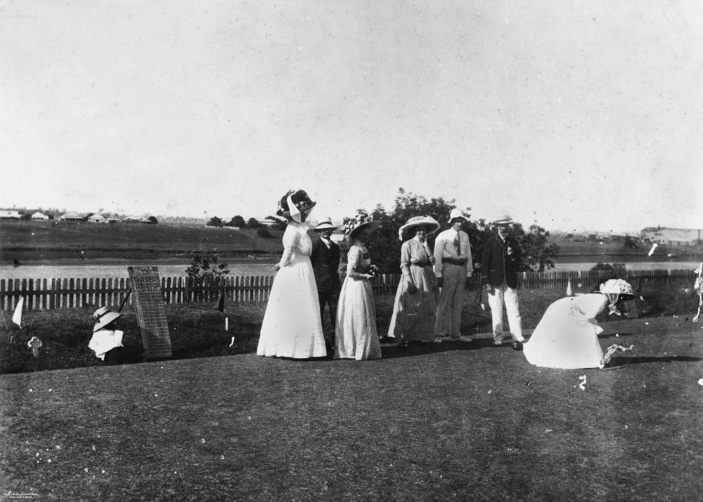 Lawn bowls, Maryborough, ca. 1907 Men and women play lawn bowls. The women, one of whom is about to bowl a ball down the green, wear large hats and long dresses. A scoreboard has been set up next to the group.